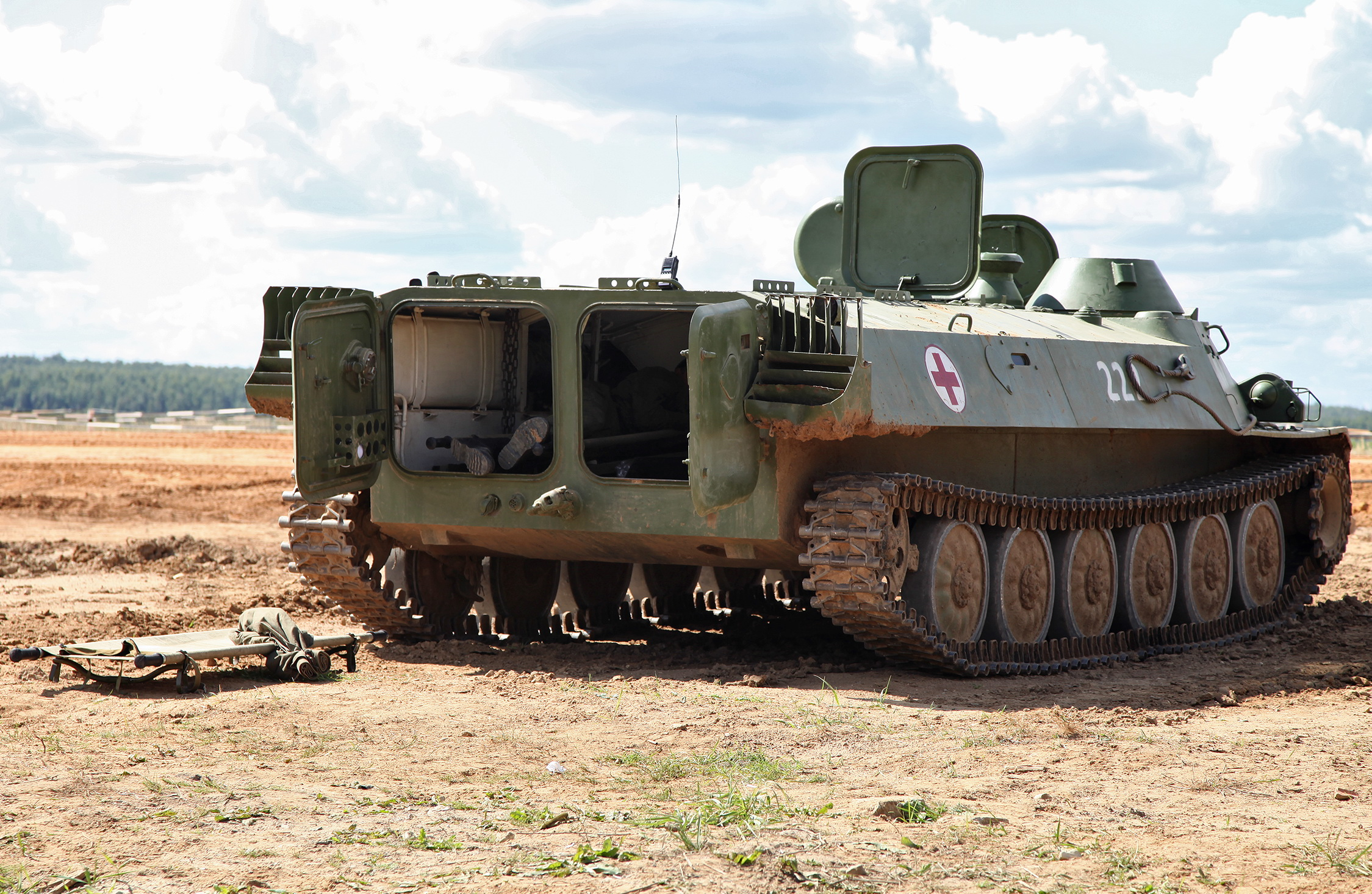 Medic MT-LB